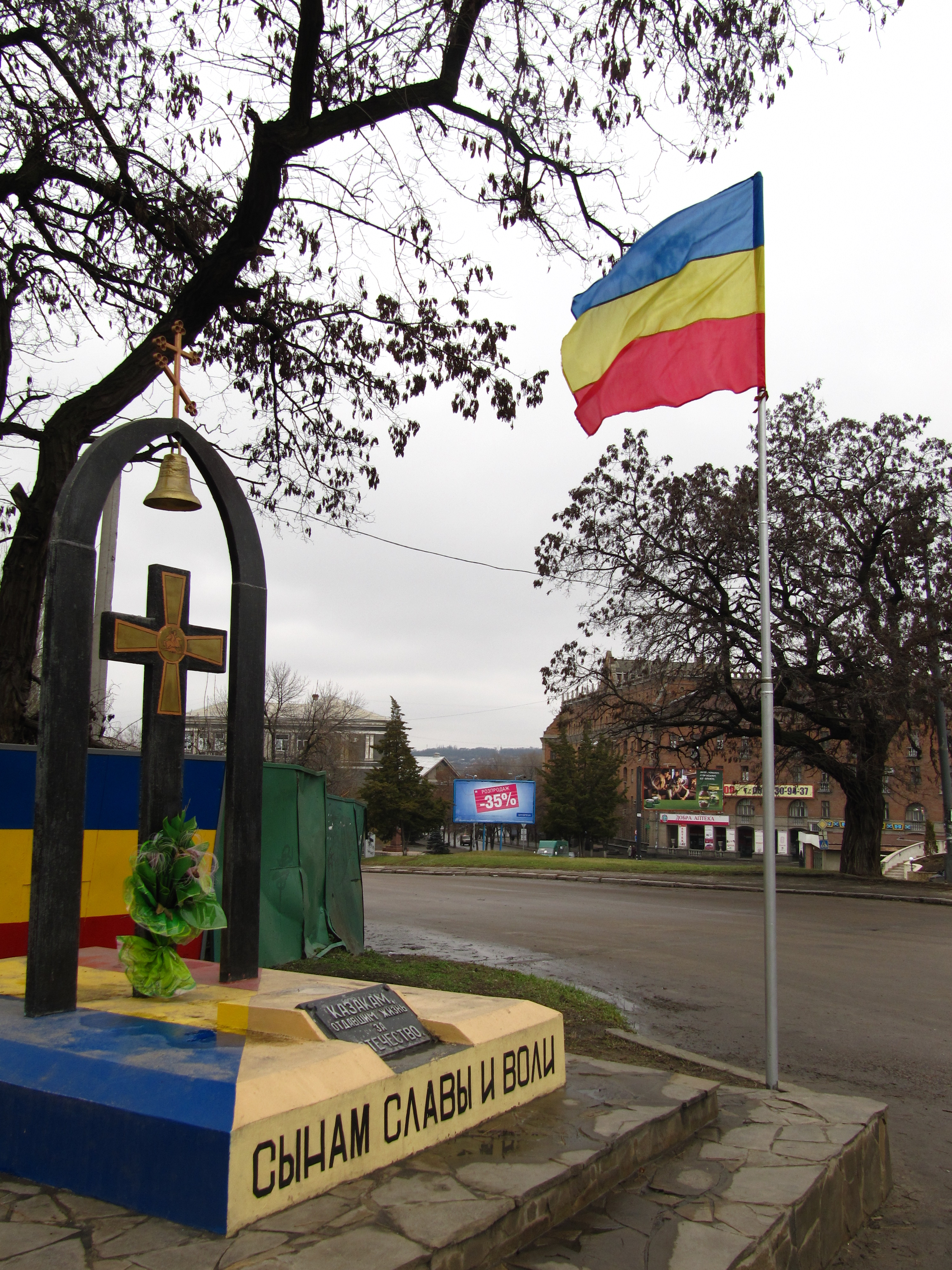 A monument to Don Cossacks' near the Kazansky Cathedral destroyed by communists, in the city of Luhansk (Ukraine). "To the sons of glory and will". "To the Cossacks that laid their lives for the Motherland".